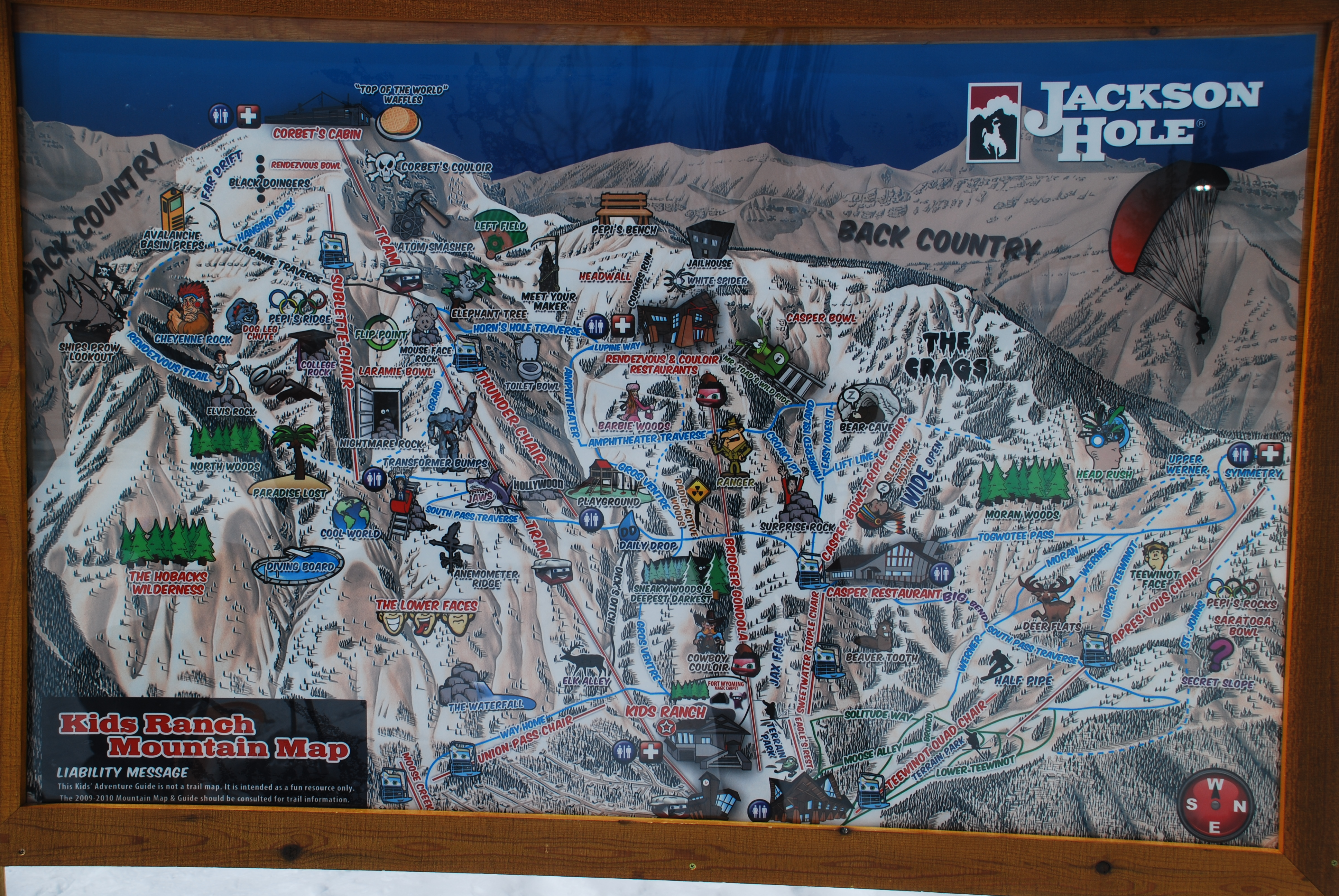 Jackson Hole creative piste map